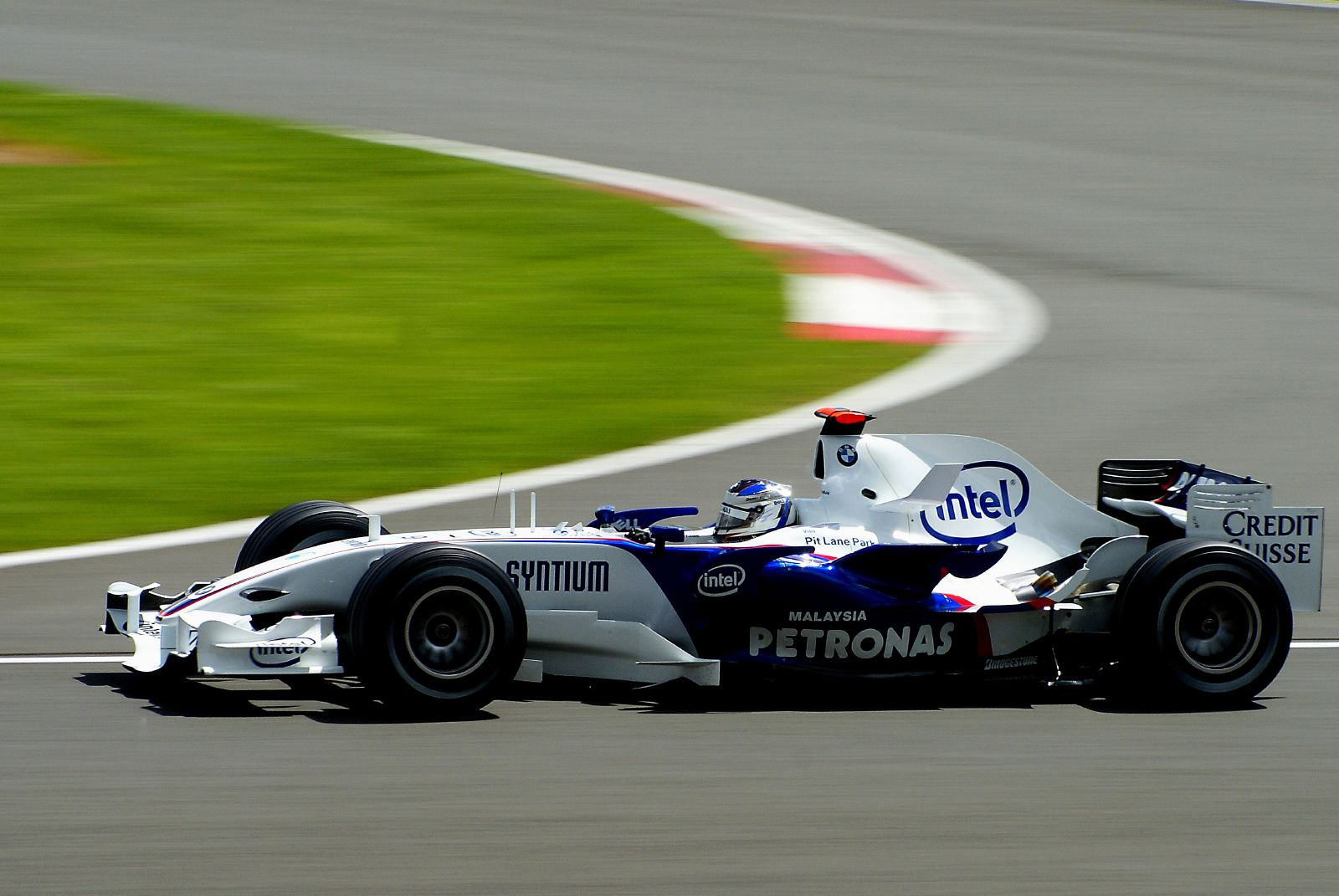 Nick Heidfeld driving for BMW Sauber at the 2007 British Grand Prix.